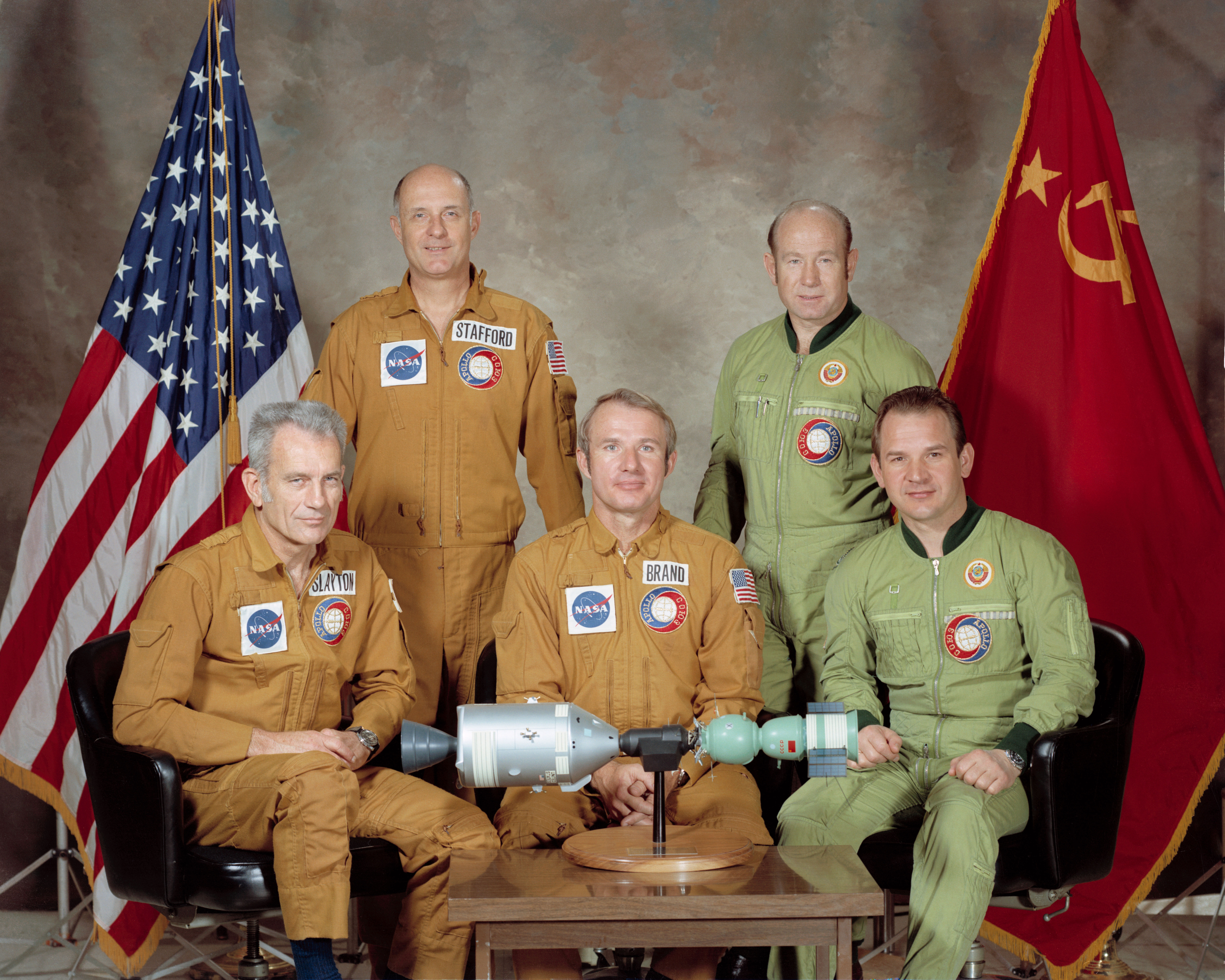 The Apollo–Soyuz Test Project crew. From left to right: Deke Slayton, Thomas Stafford, Vance Brand, Alexey Leonov and Valeri Kubasov.